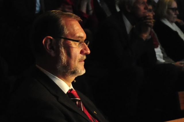 Hermann Miklas.